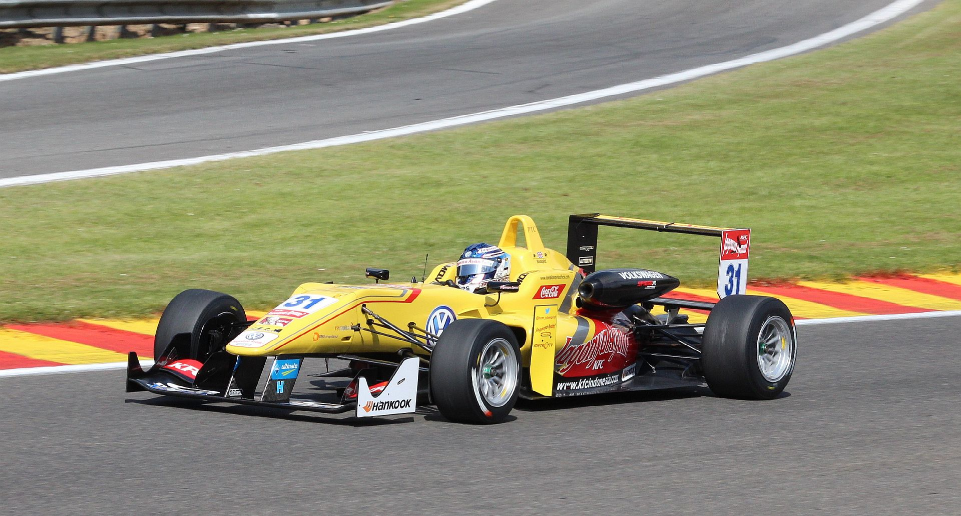 Tom Blomqvist at Spa in 2014, European Formula 3 Championship